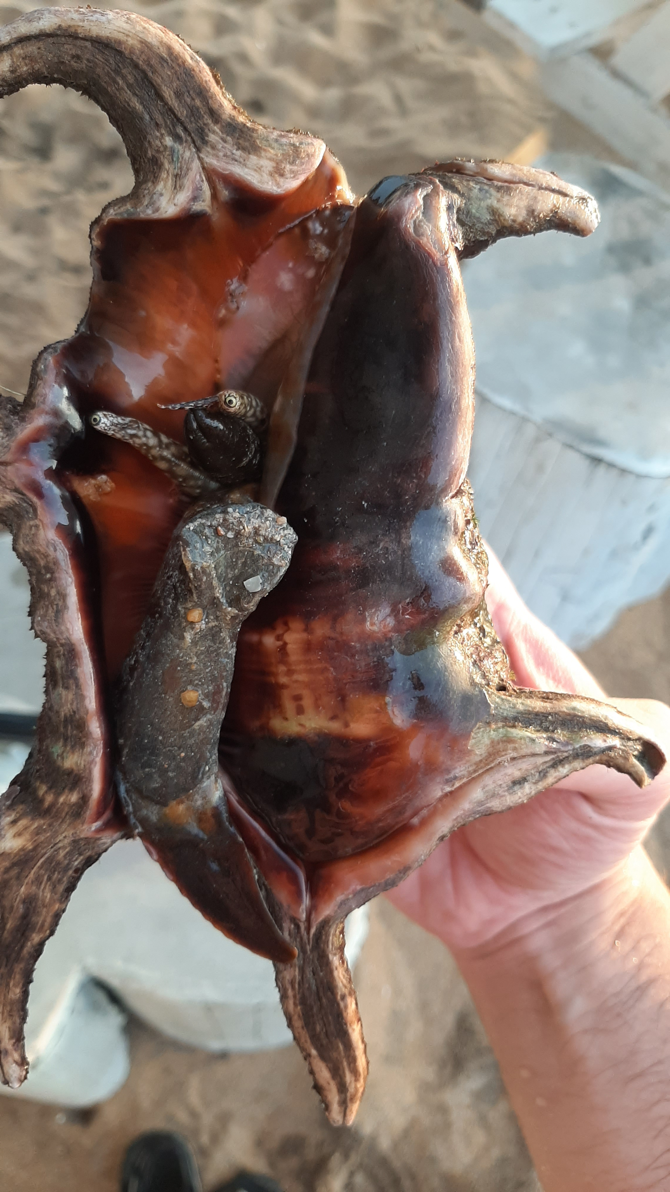 Harpago chiragra. Unawatuna, Sri-Lanka